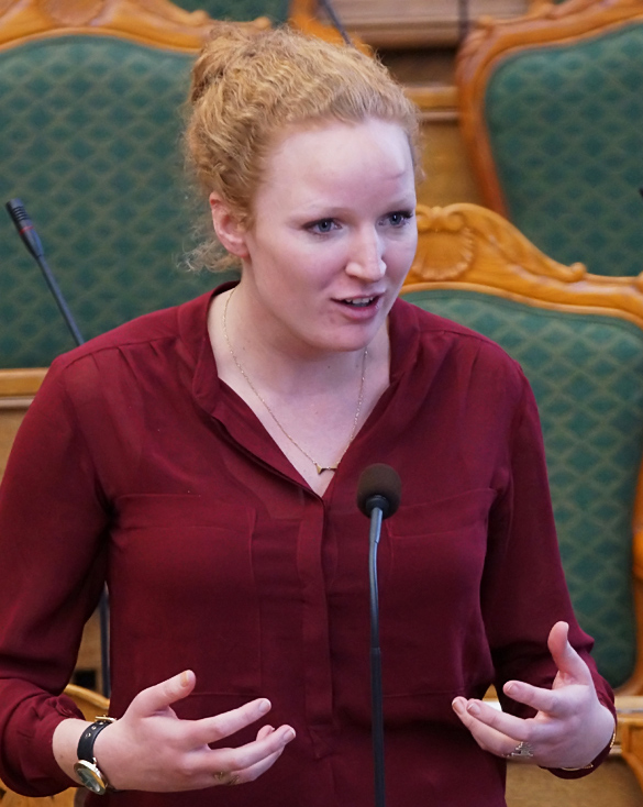 Rosa Lund - Danish politician and MP from Red-Green Alliance during meeting in The Danish Parliament "Folketinget", december 2012